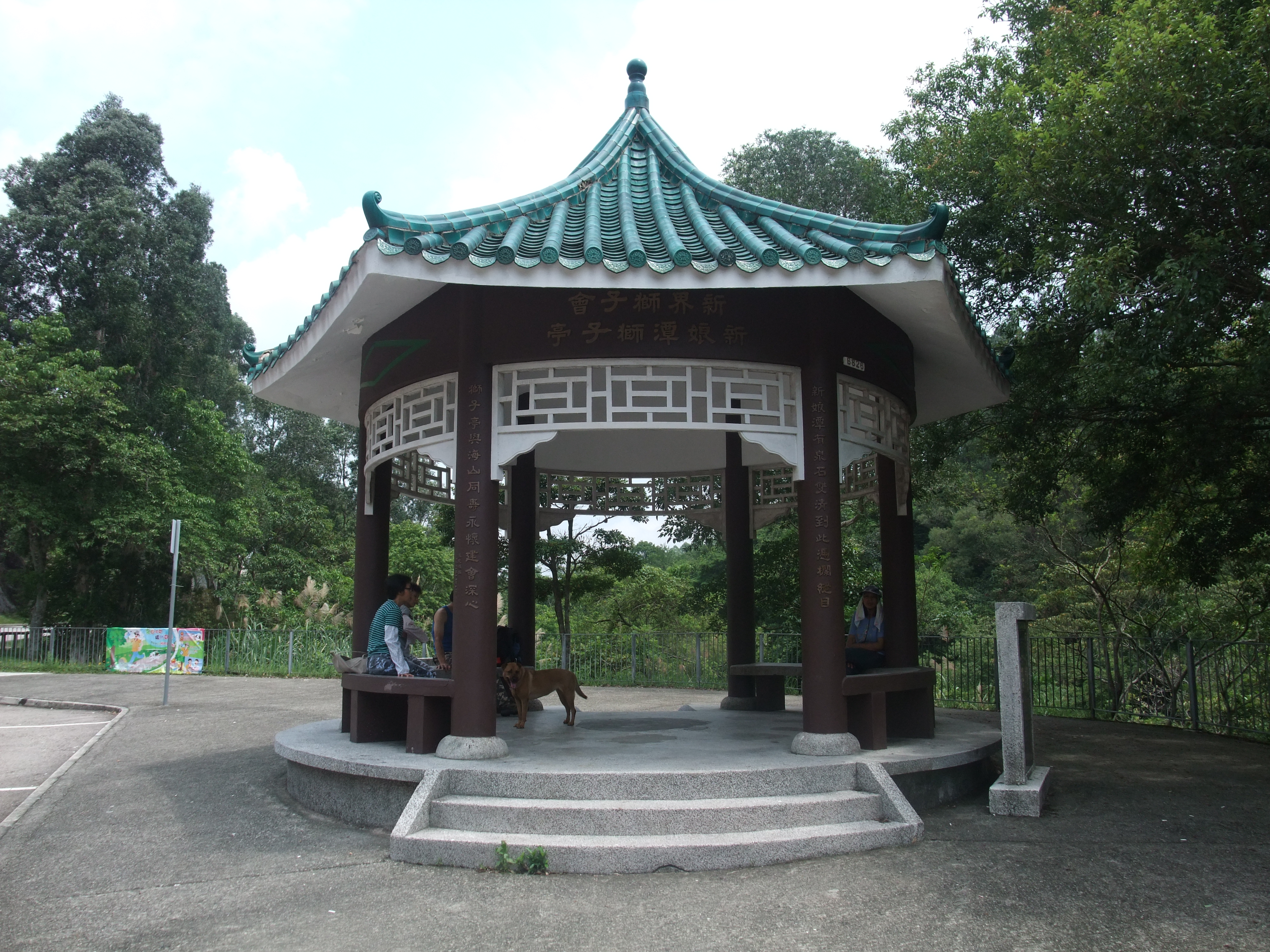 Lions Pavilion at Bride's Pool, built by Lions Club of The New Territories